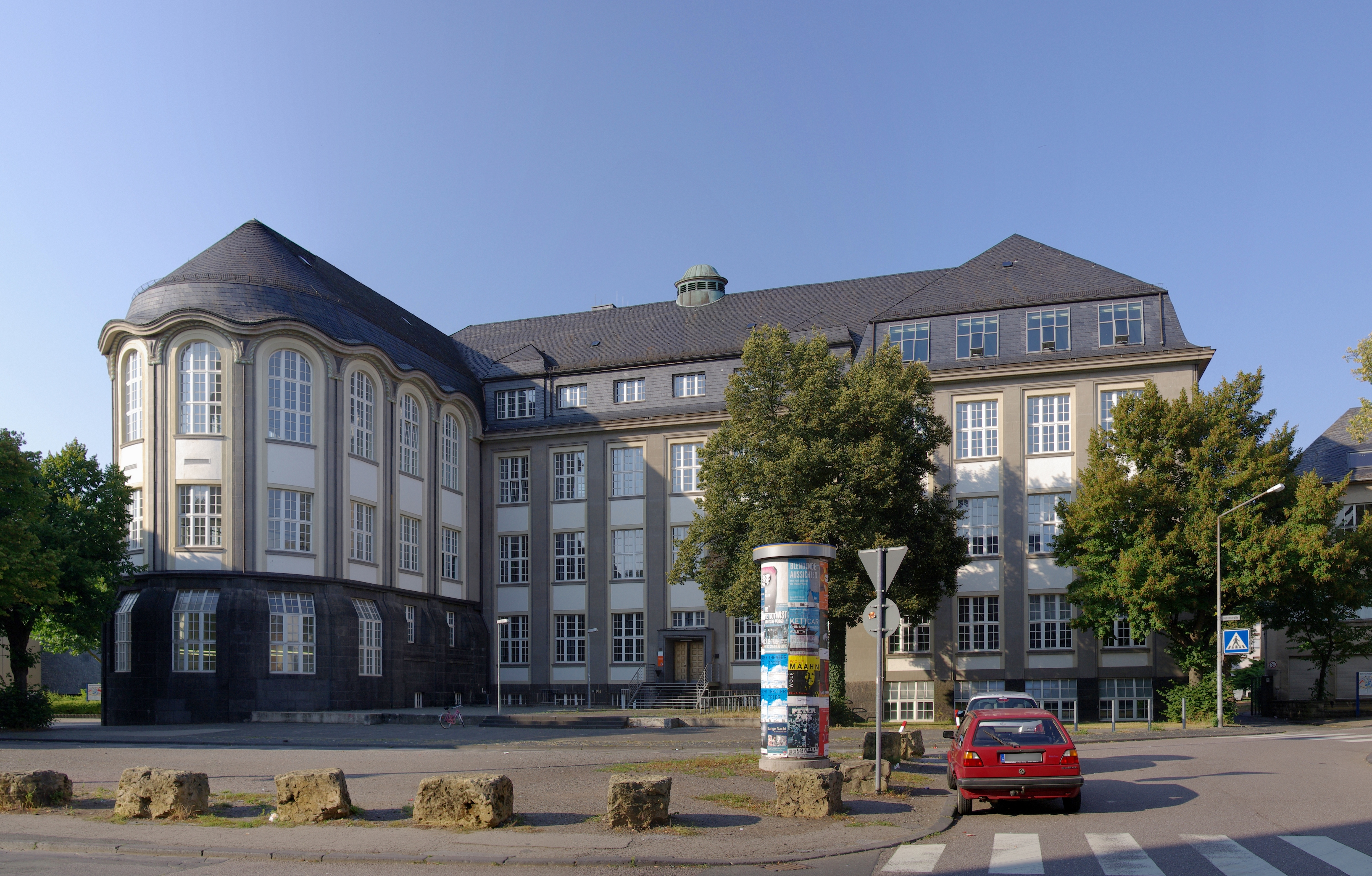 Building of Trier University of Applied Sciences at Paulusplatz (St. Pauls place)